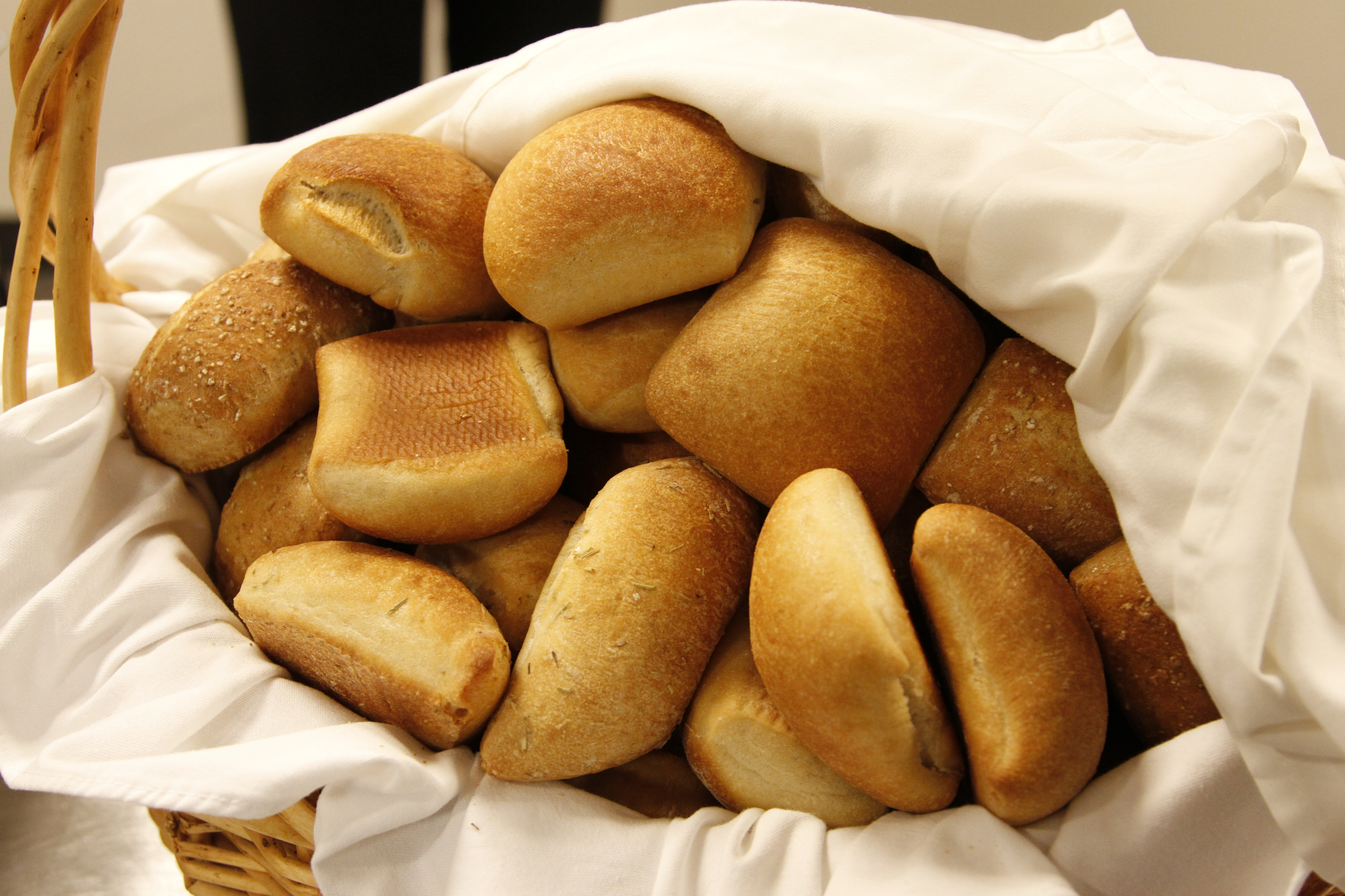 Title Basket of Rolls Description A basket of rolls placed in a wicker basket lined with a white cloth. Topics/Categories Food and Drink Type Color, Photo Source National Cancer Institute